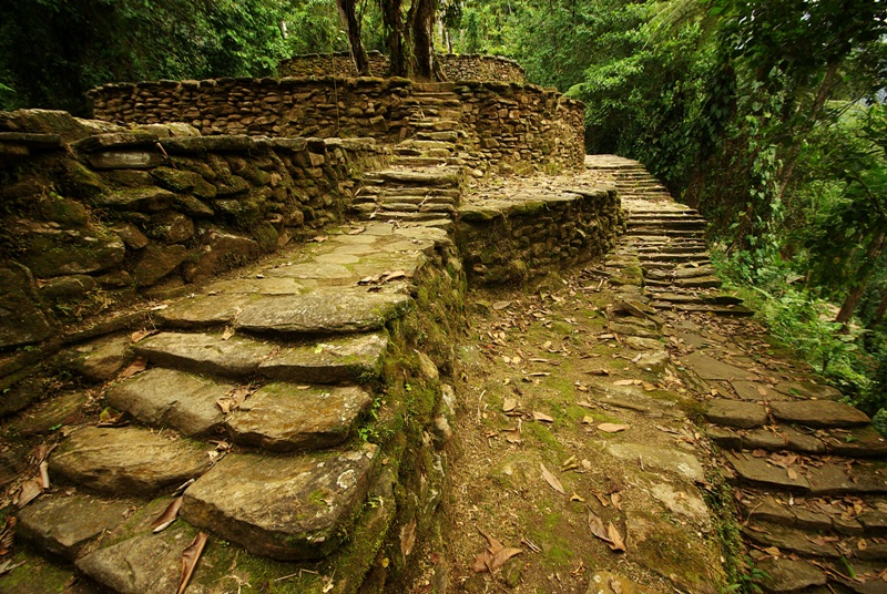 Stairs and walkways, part of the Ciudad Perdida.